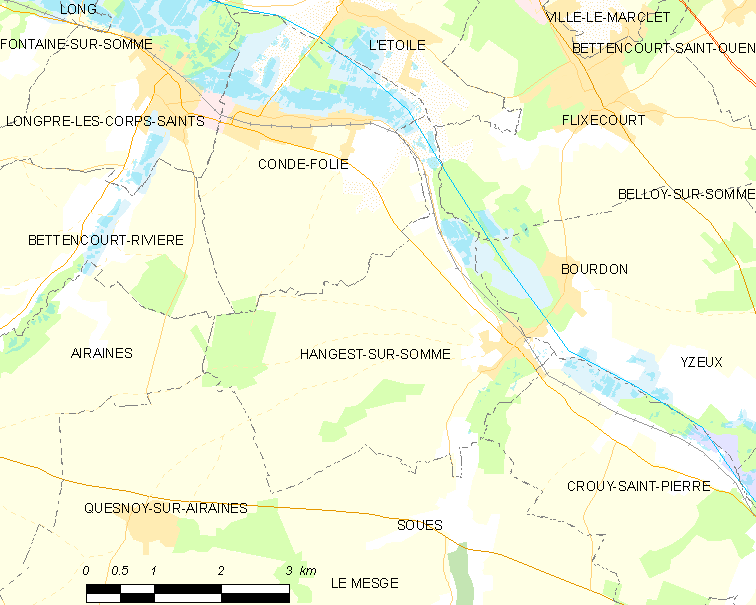 Map of French municipality Hangest-sur-Somme